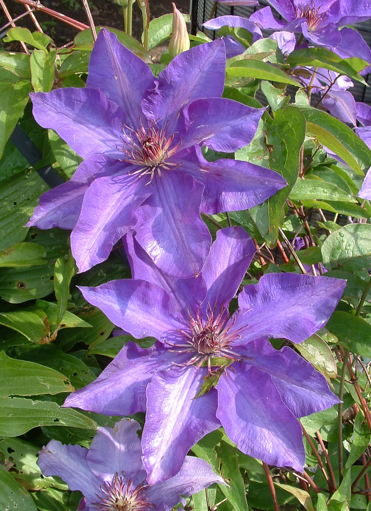 Clematis 'The President' in Niles, Illinois, USA.